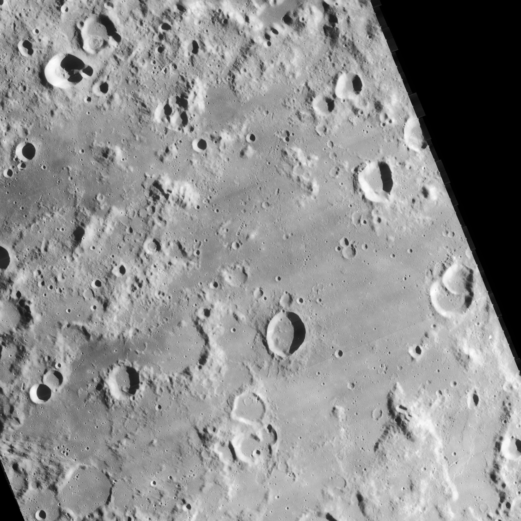 Lacus Excellentiae, on the moon. This is rotated and cropped to approximately match the extent of another image of Lacus Excellentiae acquired by the Clementine spacecraft available on Wikimedia Commons.